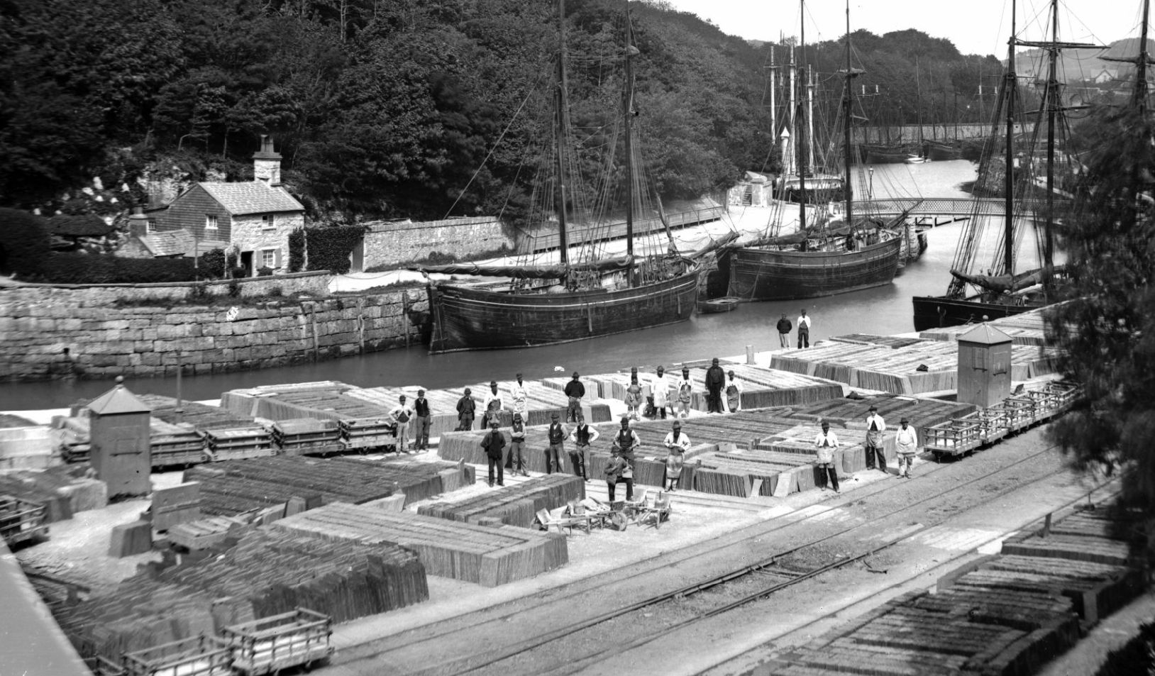 1 negative : glass, wet collodion, b&w ; 16.5 x 21.5 cm.